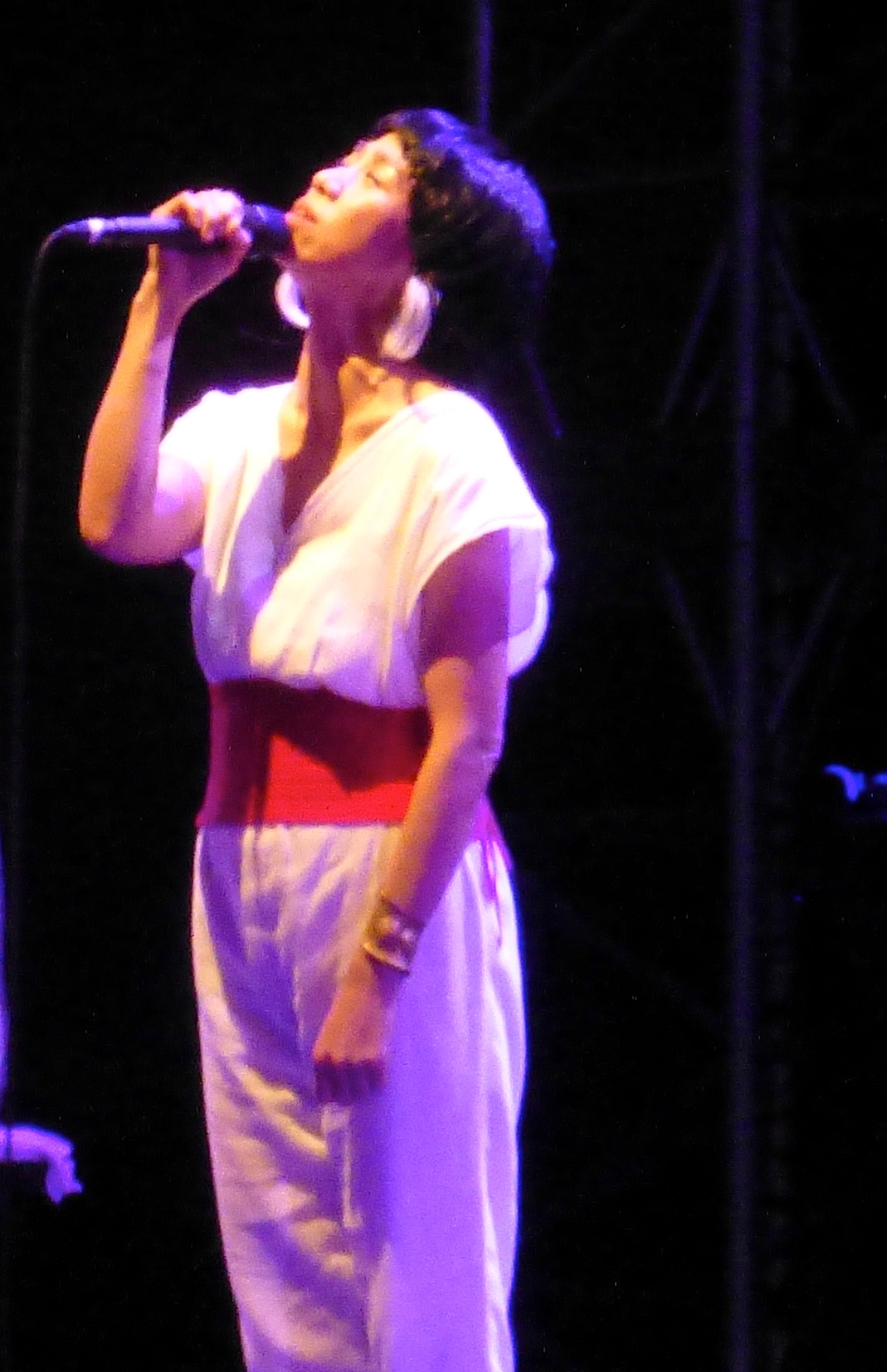 Kaori Hasegawa (長谷川 歌織 Hasegawa Kaori?) (born March 11, 1972 in Suita, Osaka, Japan), simply known by the stage name UA (Japanese pronunciation: [ɯːa]), is a Japanese singer-songwriter.